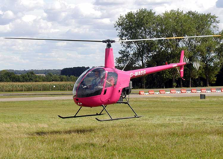 Robinson R22 Beta helicopter at Kemble Heli-Day 2003 (Gloucestershire, England)